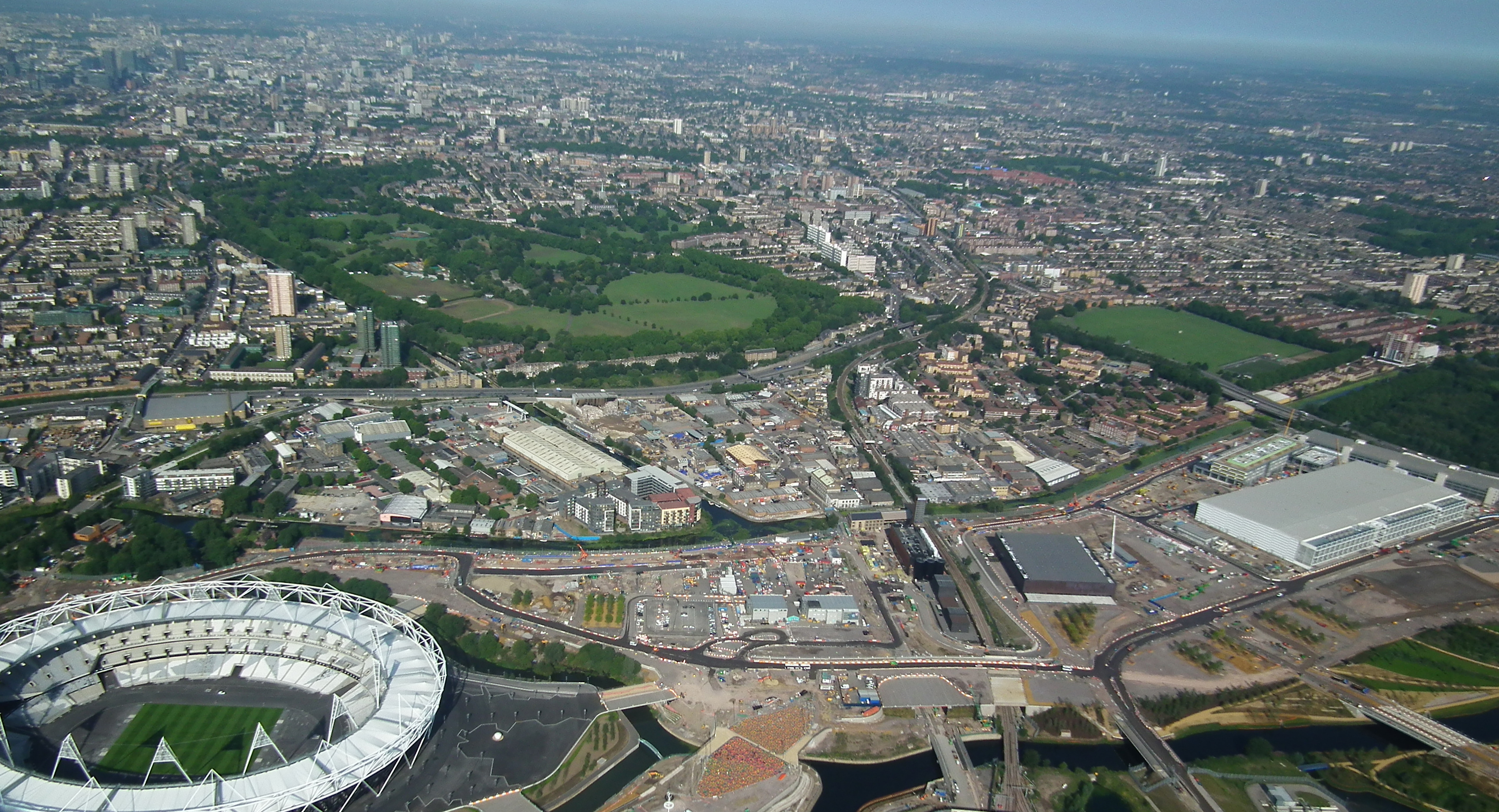 Construction of Olympic Park, London — (June 2011). Aerial photo of the Olympic Park stadium (left) and media centre (right).